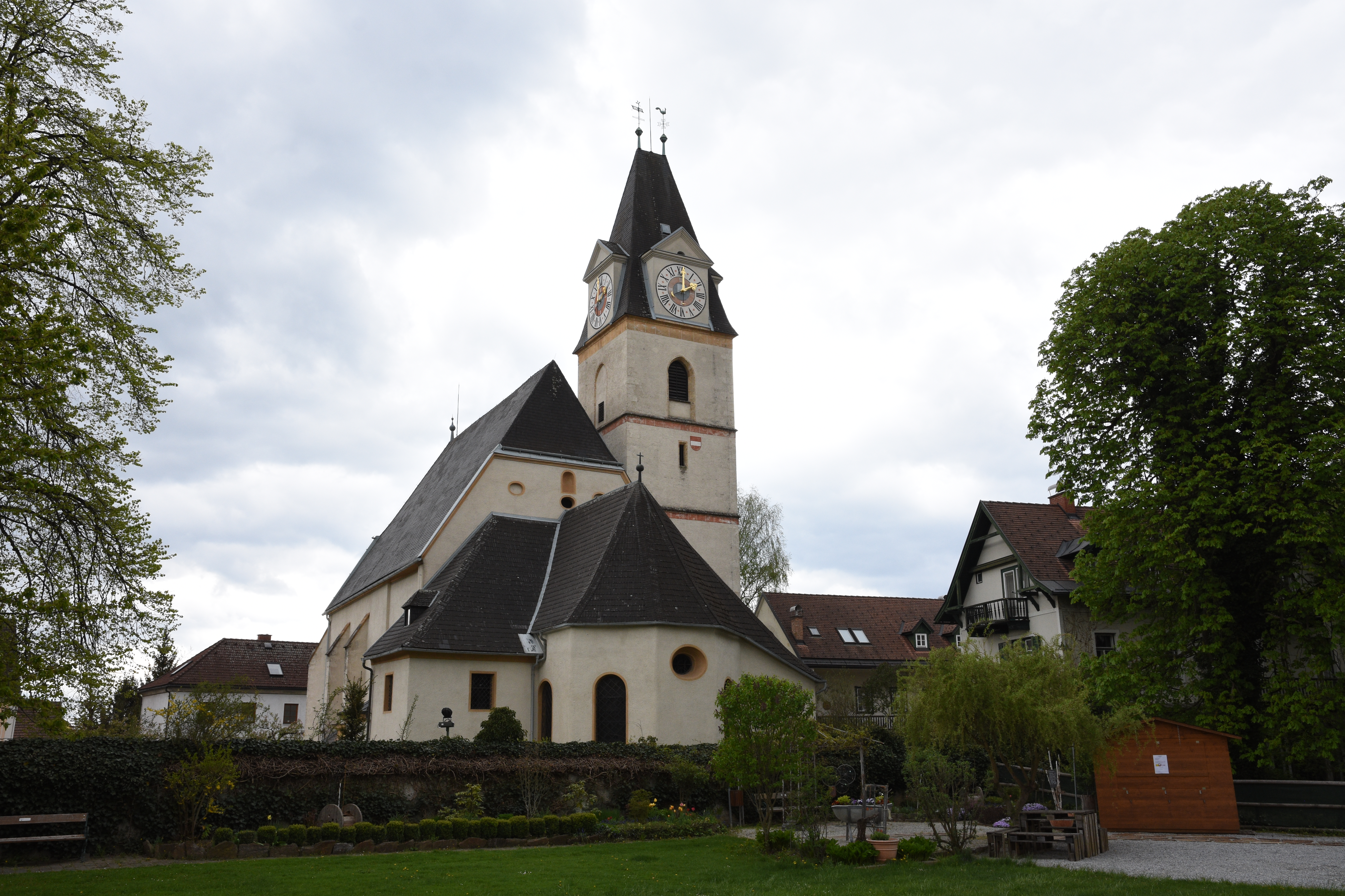 Church Kath. Pfarrkirche hl. Andreas Langenwang